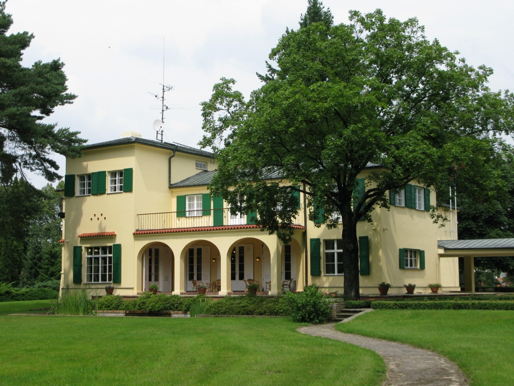 Edvard Benes' summer house